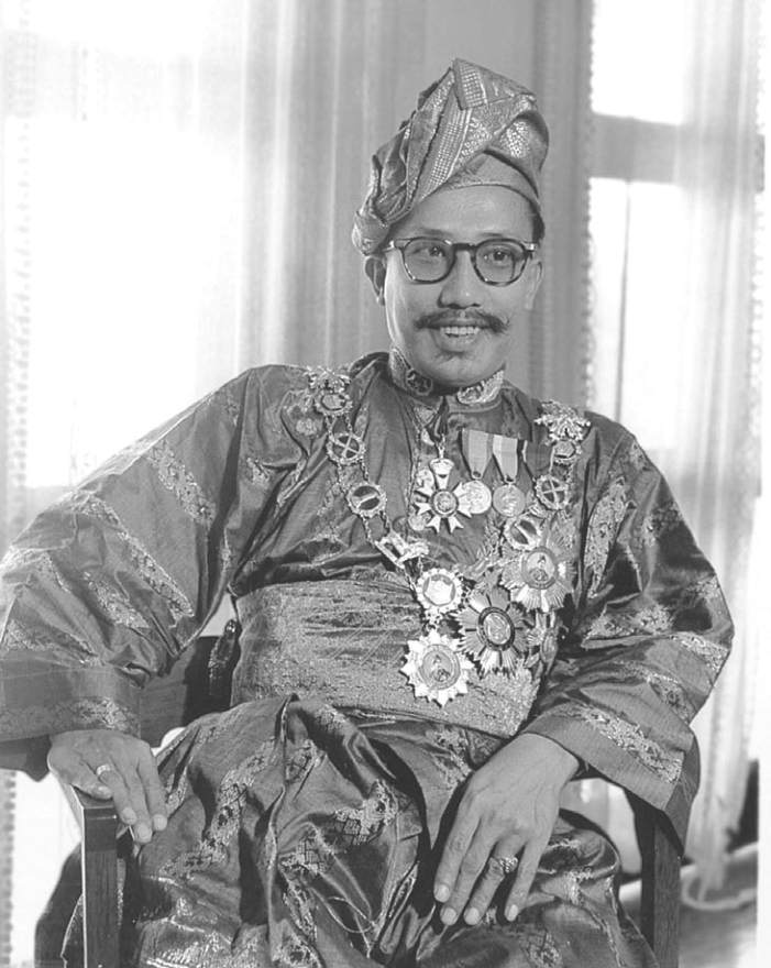 Sultan of Brunei Omar Ali Saifuddien III. Photograph taken c.1950 by an unknown phtographer